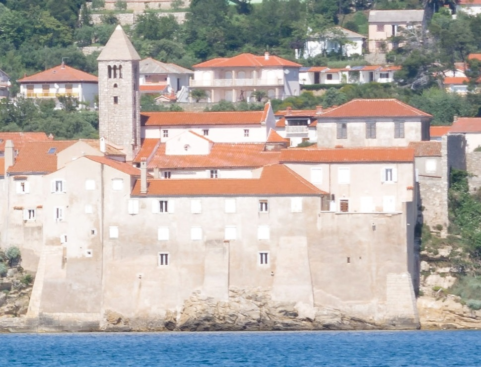 Rab, St Andrews's benedictine monastery